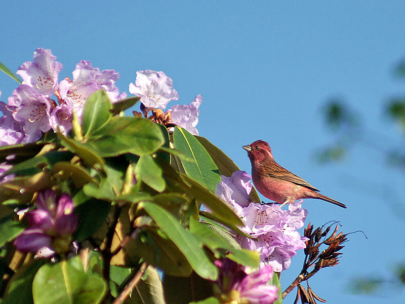 Pink-browed Rosefinch Carpodacus rodochroa in Kullu District of Himachal Pradesh, India.